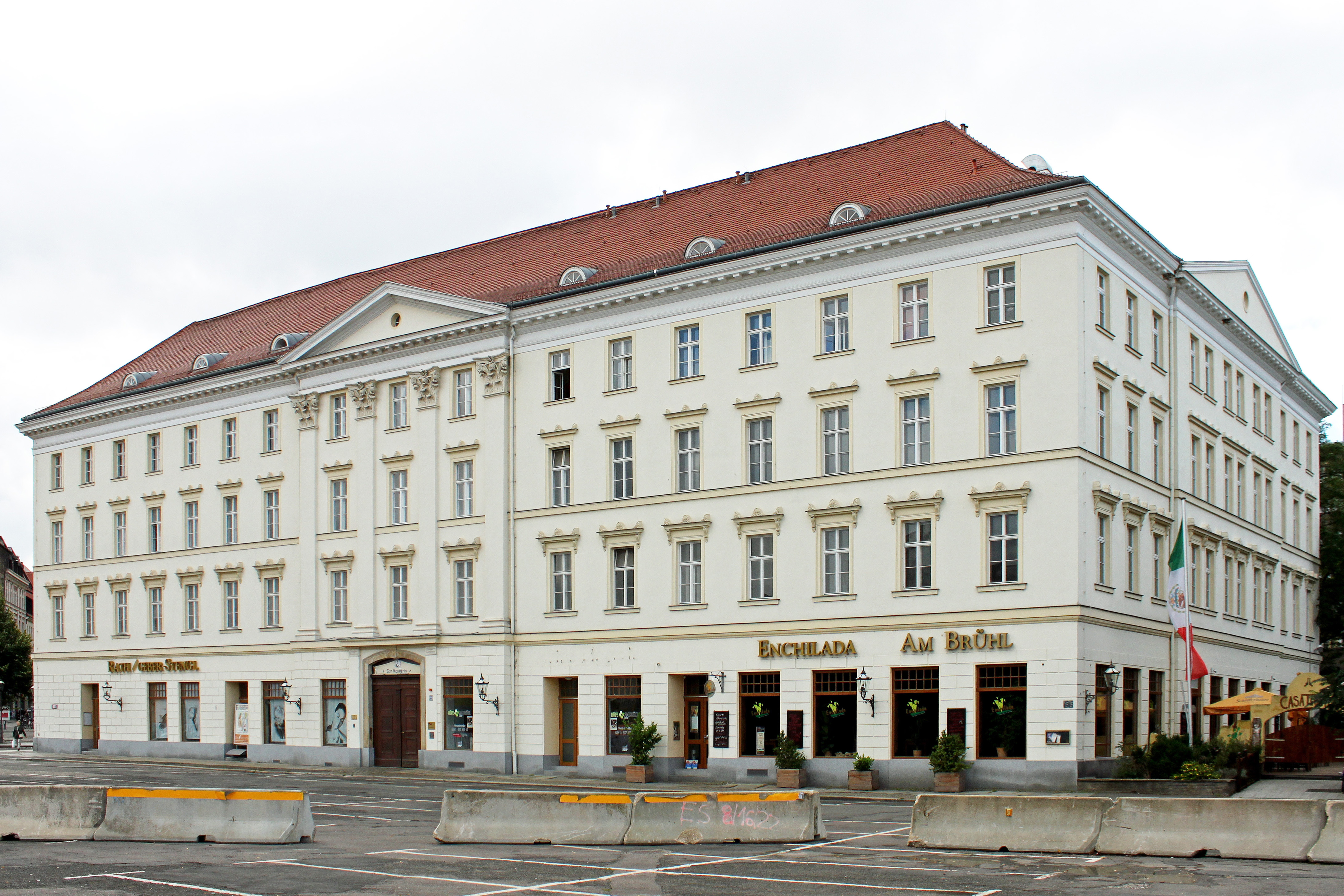 the "Große Blumberg"